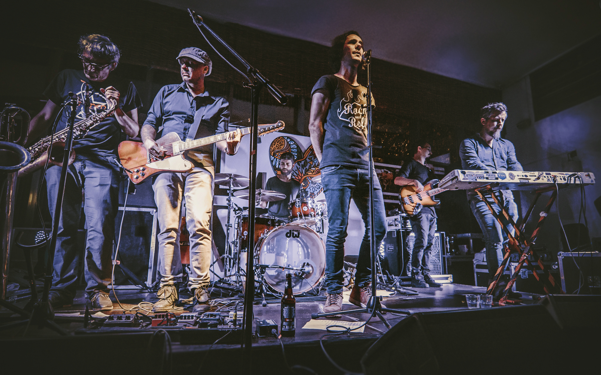 Kumm's second gig in 2017, October 22nd [Clubul Țăranului]